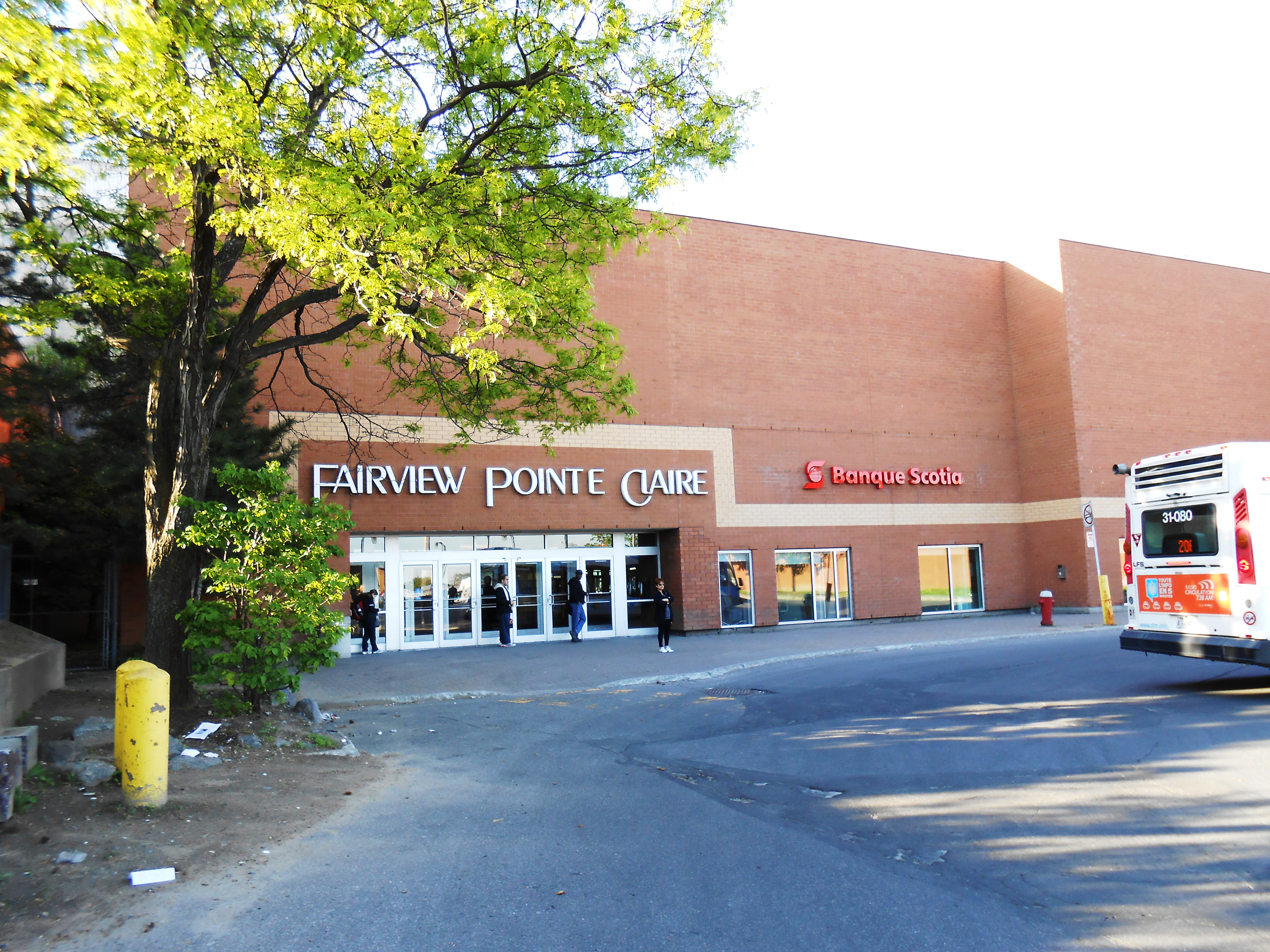 Fairview Pointe-Claire, also called Fairview Centre, is one of the biggest super regional shopping malls on the island of Montreal with about 1,000,000 square feet (92,900 m2) spread on two levels of shopping space. It is located in the city of Pointe-Claire at the intersection of Trans-Canada Highway and Saint-Jean Boulevard.